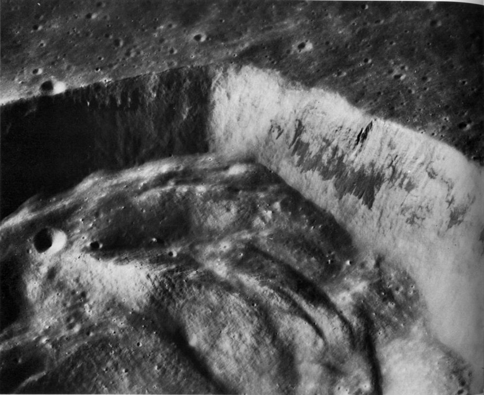 Oblique view of part of part of Pytheas, on the moon. This is Figure 146 of Apollo Over the Moon (NASA SP-362, 1978), which has the following caption: The Apollo 17 panoramic camera provided this high-resolution, enlarged view of the south wall of Pytheas. Pytheas is about the same size as Bessel (fig. 145), but is located in south-central Mare Imbrium almost 1100 km west of the latter. The outcrops in the walls of the two craters are remarkably similar. These and the many other craters in mare areas that contain outcrops of dark horizontally layered rock demonstrate the moonwide uniformity of conditions in the upper part of the mare basins.-M.C.M.